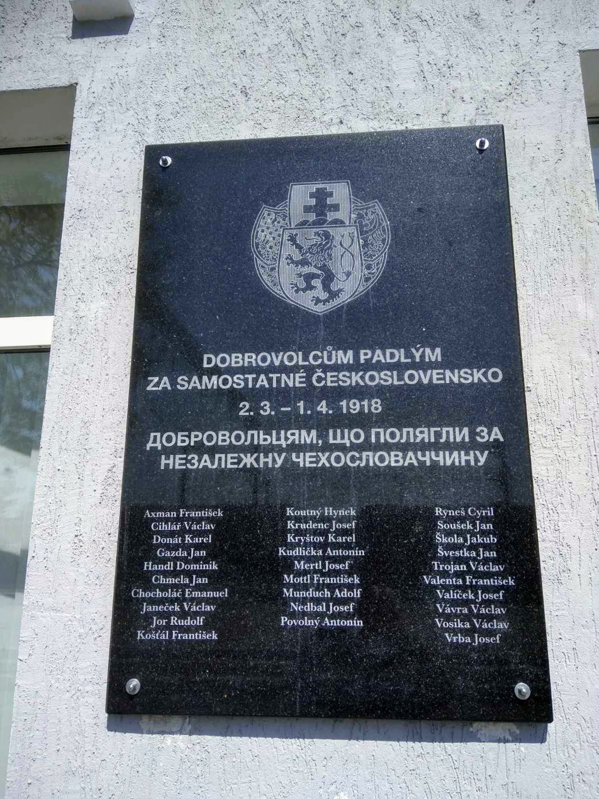 Memorial plaque to the memory of fighters for the independence of Czechoslovakia. Located on the station Bakhmach Kyivskyi.